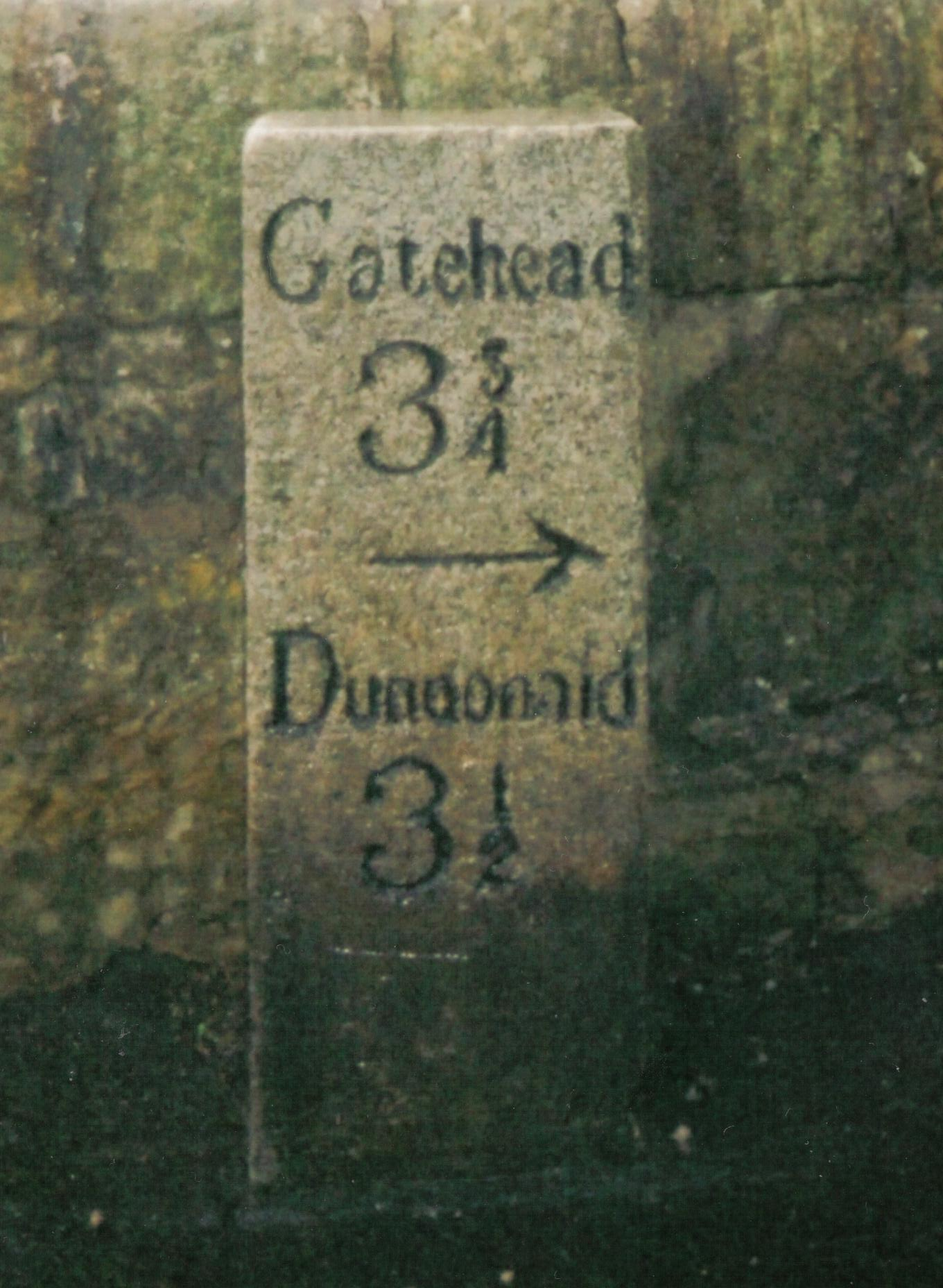 A Milestone to Gatehead and Dundonald on the old toll road at Symington, South Ayrshire, Scotland. 2006.